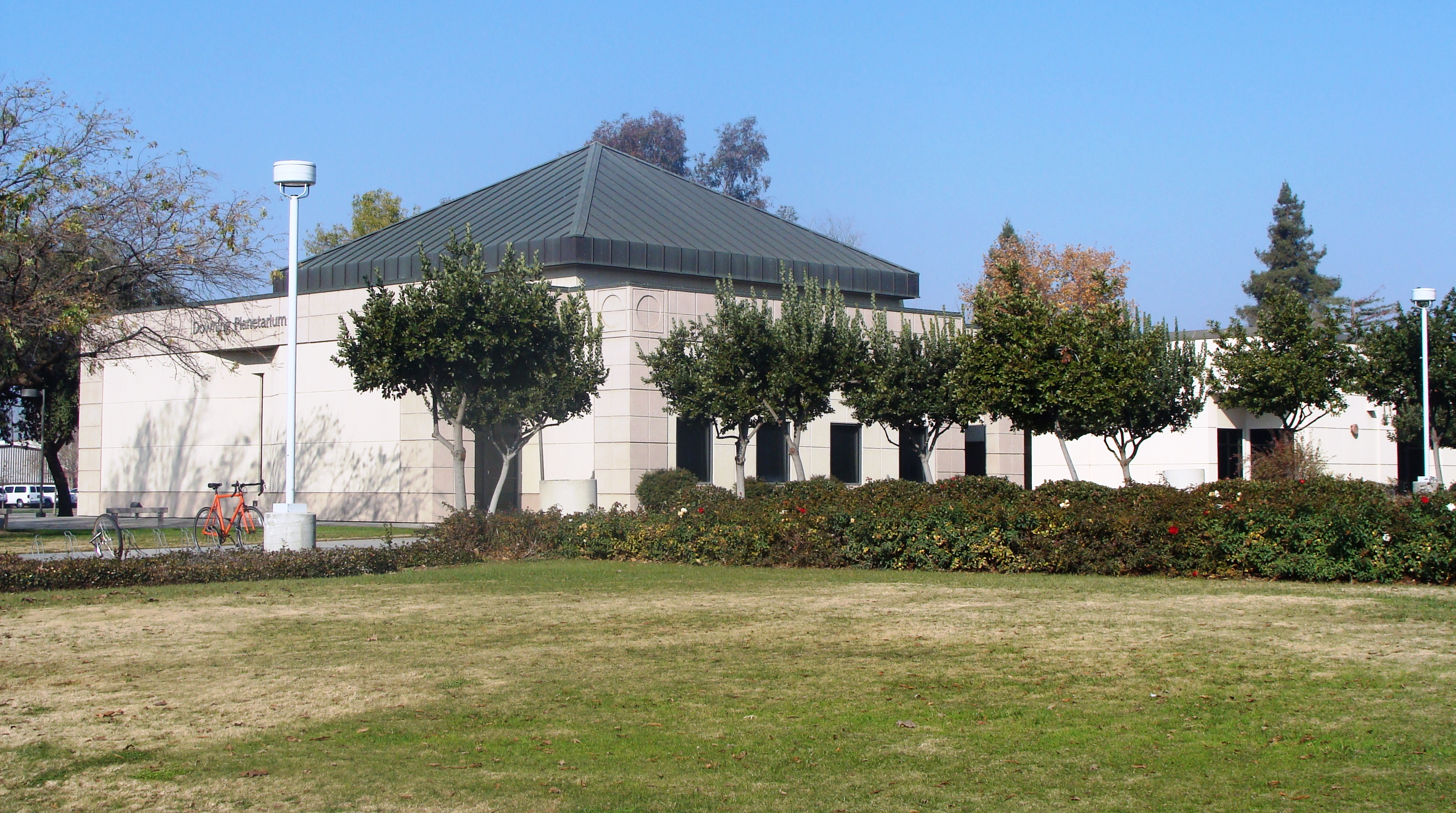 The Downing Planetarium. California State University, Fresno.